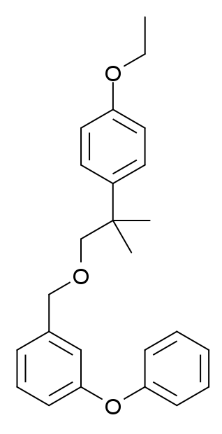 Structure of ethofenprox